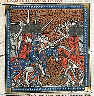 Tagliacozzo